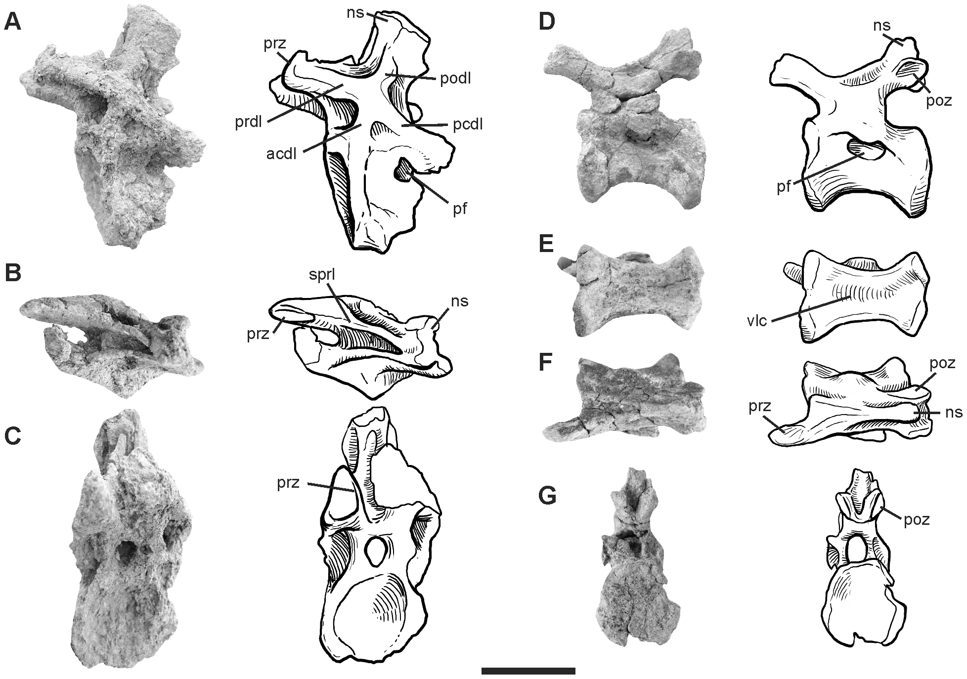 Photographs and half-tone drawings of the mid caudal vertebrae of Leinkupal laticauda, gen. n. sp. n. (MMCH-Pv 63). Caudal 12? in (A) lateral, (B) dorsal and (C) anterior views (reversed). Caudal 20? in (D) lateral, (E) ventral, (F) dorsal and (G) posterior views. Abbreviations: acdl, anterior centrodiapophyseal lamina; ns, neural spine; pcdl, posterior centrodiapophyseal lamina; pf, pneumatic fossa; podl, postzygodiapophyseal lamina; poz, postzygapophysis; prdl, prezygodiapophyseal lamina; prz, prezygapophysis; sprl, spinoprezygapophyseal lamina; vlc, ventral longitudinal concavity. Scale bar equals 10 cm.